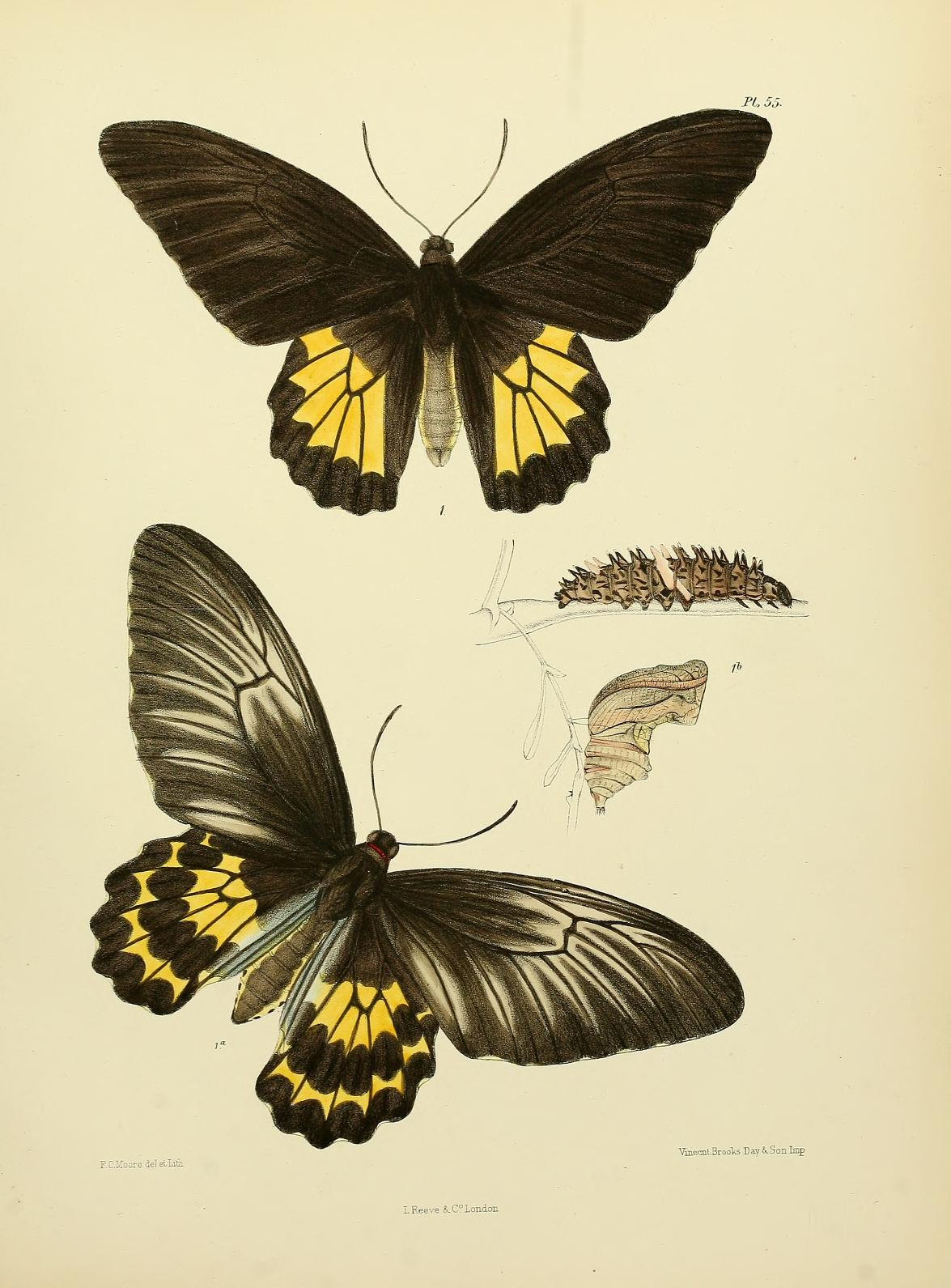 Frederic Moore The Lepidoptera of Ceylon Plate 55 Fig 1, 1a, b Ornithoptera darsius =Troides darsius